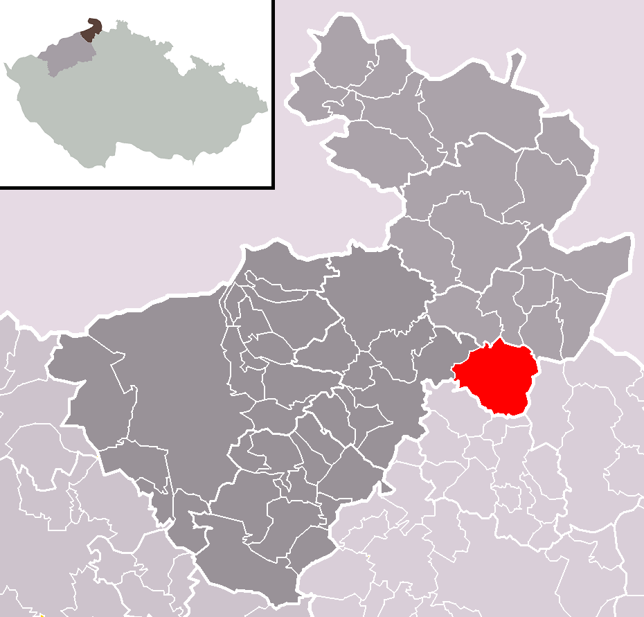 Location of Kytlice municipality within Děčín District and administrative area of Děčín as a Municipality with Extended Competence.